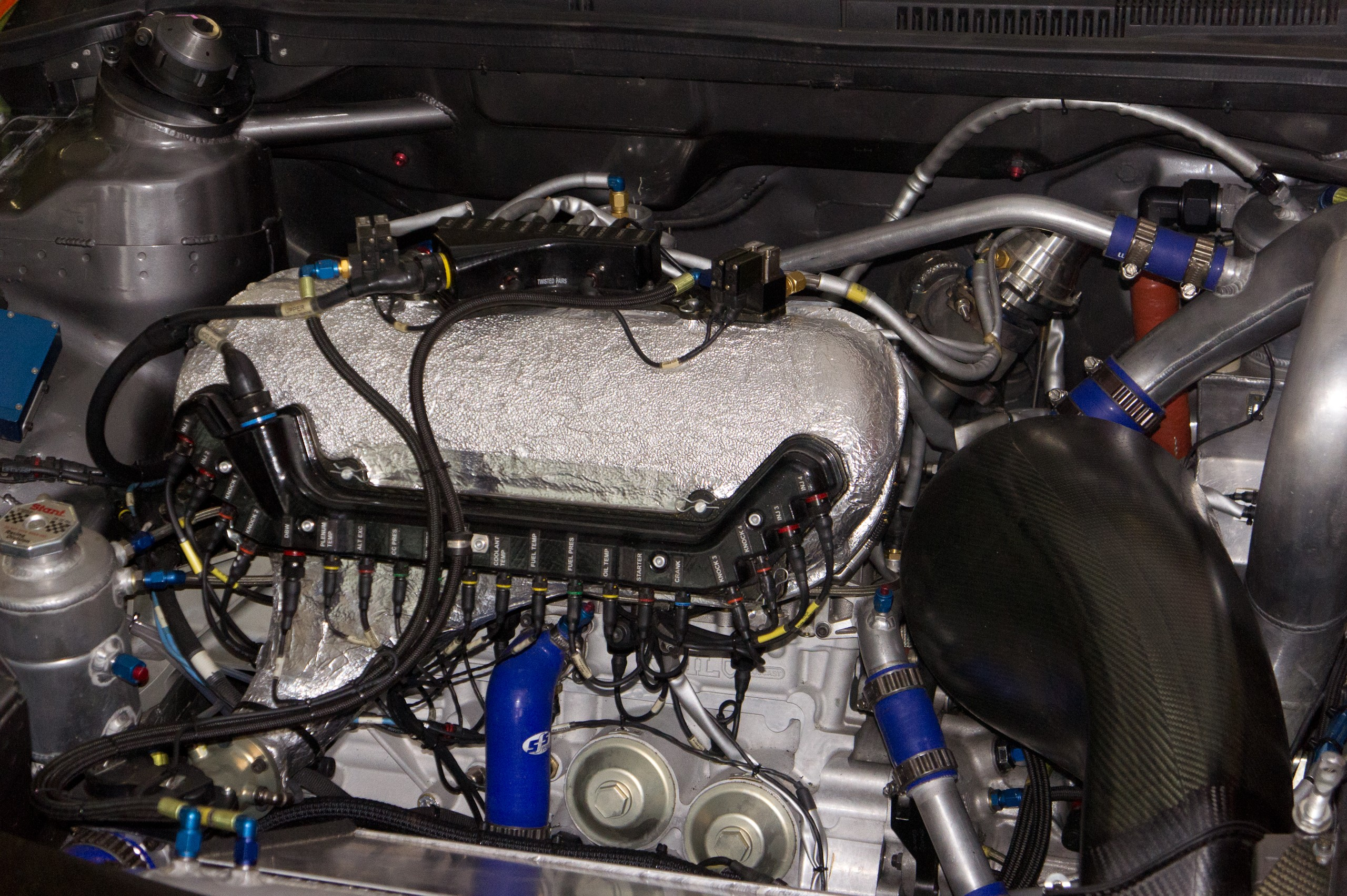 World Touring Car Championship 2011 Race of Japan: 2011 Chevrolet 1.6-litre 4-line turbo engine